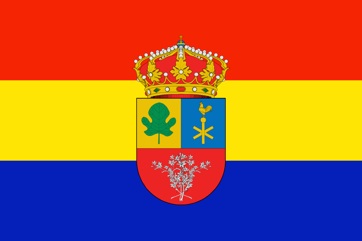 The flag of Flag of Mieres in better quality, using File:Higuera de la Serena.svg, based on Bandera de Higuera de la Serena.gif